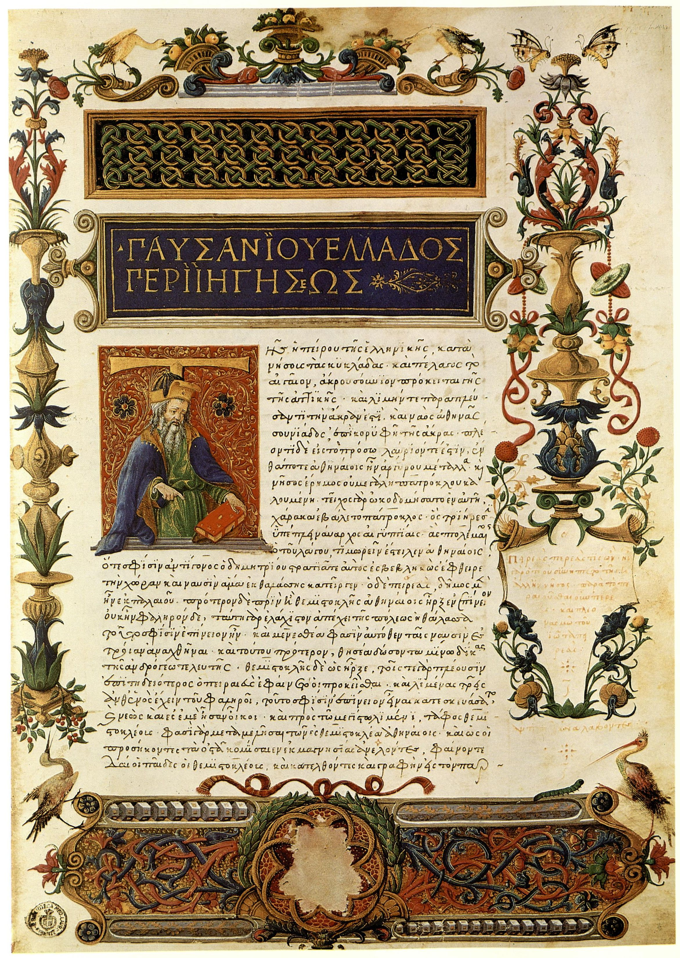 The beginning of the „Description of Greece“ in the manuscript Florence, Biblioteca Medicea Laurenziana, Plut. 56.11, fol. 1r.